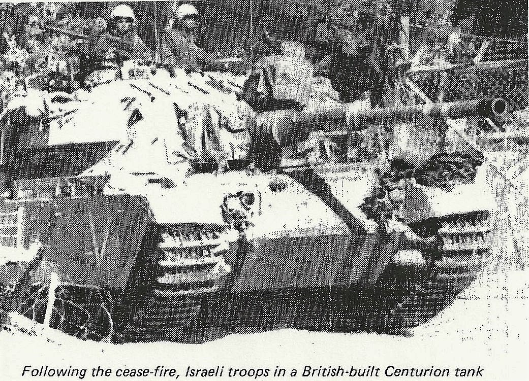 Photo courtesy of the DI Weekly Summary